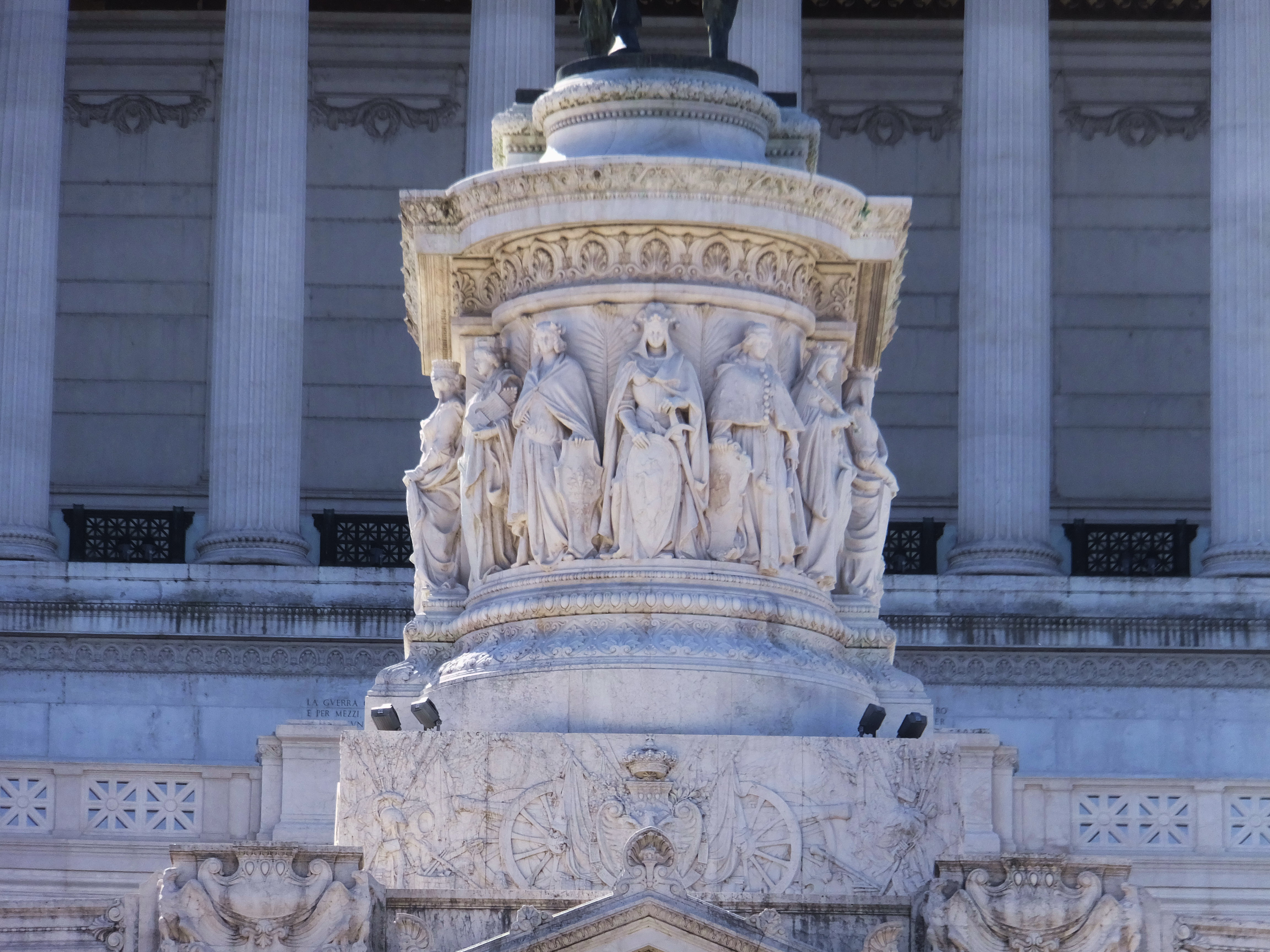 Altar of the Fatherland 維托里亞諾